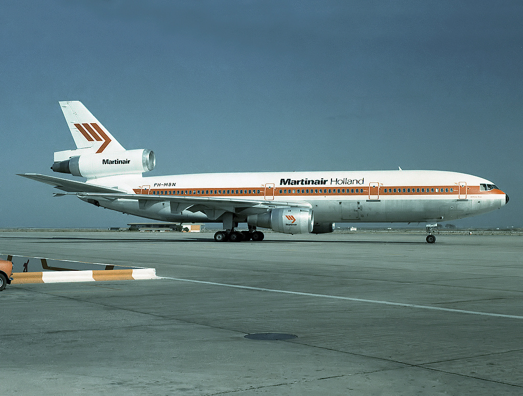 A Martinair McDonnell Douglas DC-10-30CF at Faro Airport (FAO / LPFR). This aircraft crashed at the same airport on 21 December 1992.